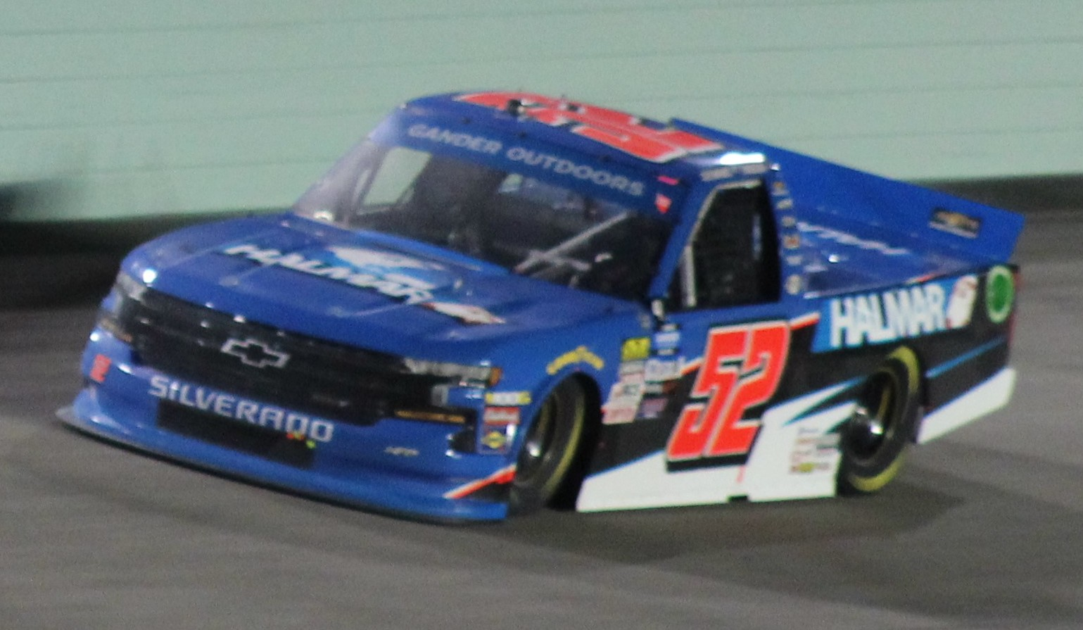 Stewart Friesen's No. 52 Halmar Chevrolet at Homestead–Miami Speedway in 2019